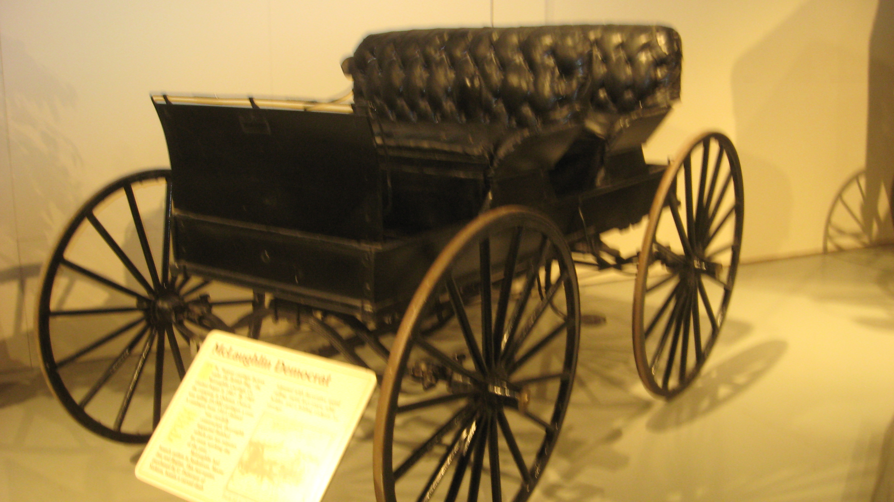 1910s McLaughlin Democrat carriage on display at Saskatchewan Western Development Museum. "Two-seater with a curved dash and trimmed with: decorative metal railing, metal foot-steps, whip holder and a folding endgate for storage"